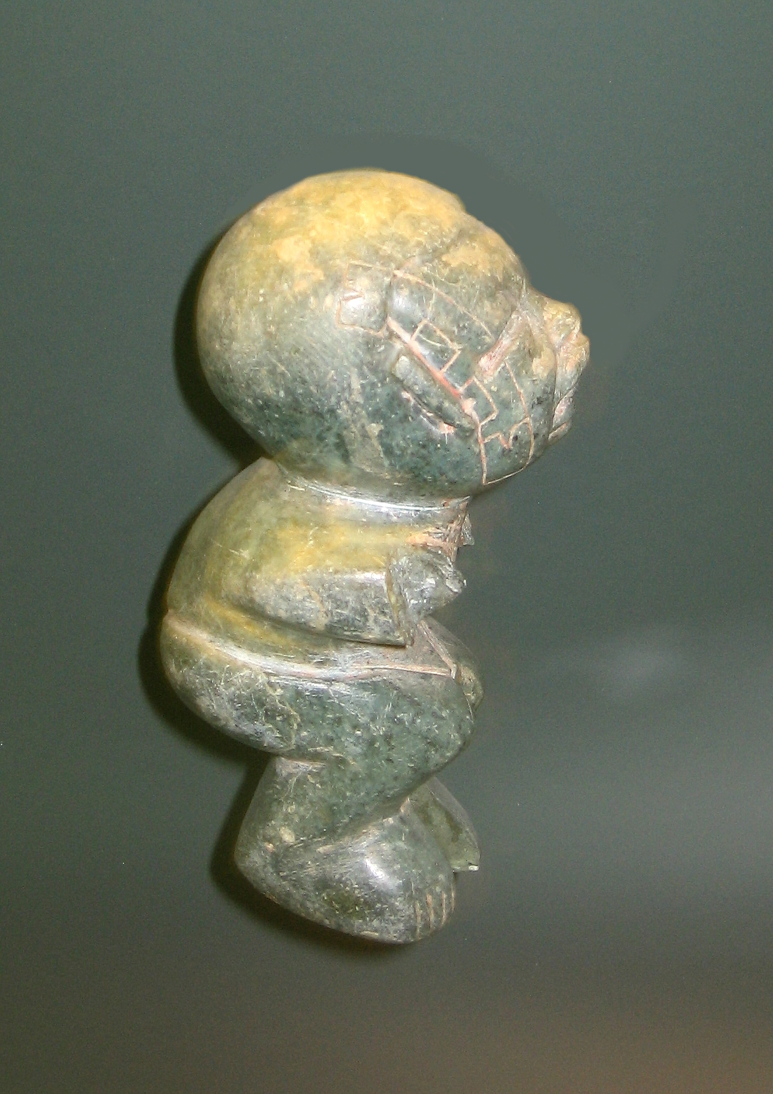 Jade Olmec figurine, thought to represent a fetus or a "crouching figure". The arms and part of one leg are missing. From Mazela, Guerrero, Mexico. Height: 3.8 in (9.5 cm). Photo by Madman.